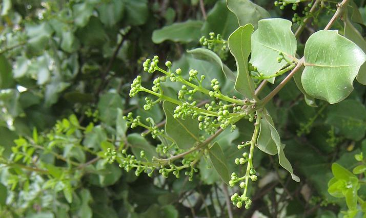 Cryptocarya alba ex hortus san Joaquín, Santiago de Chile